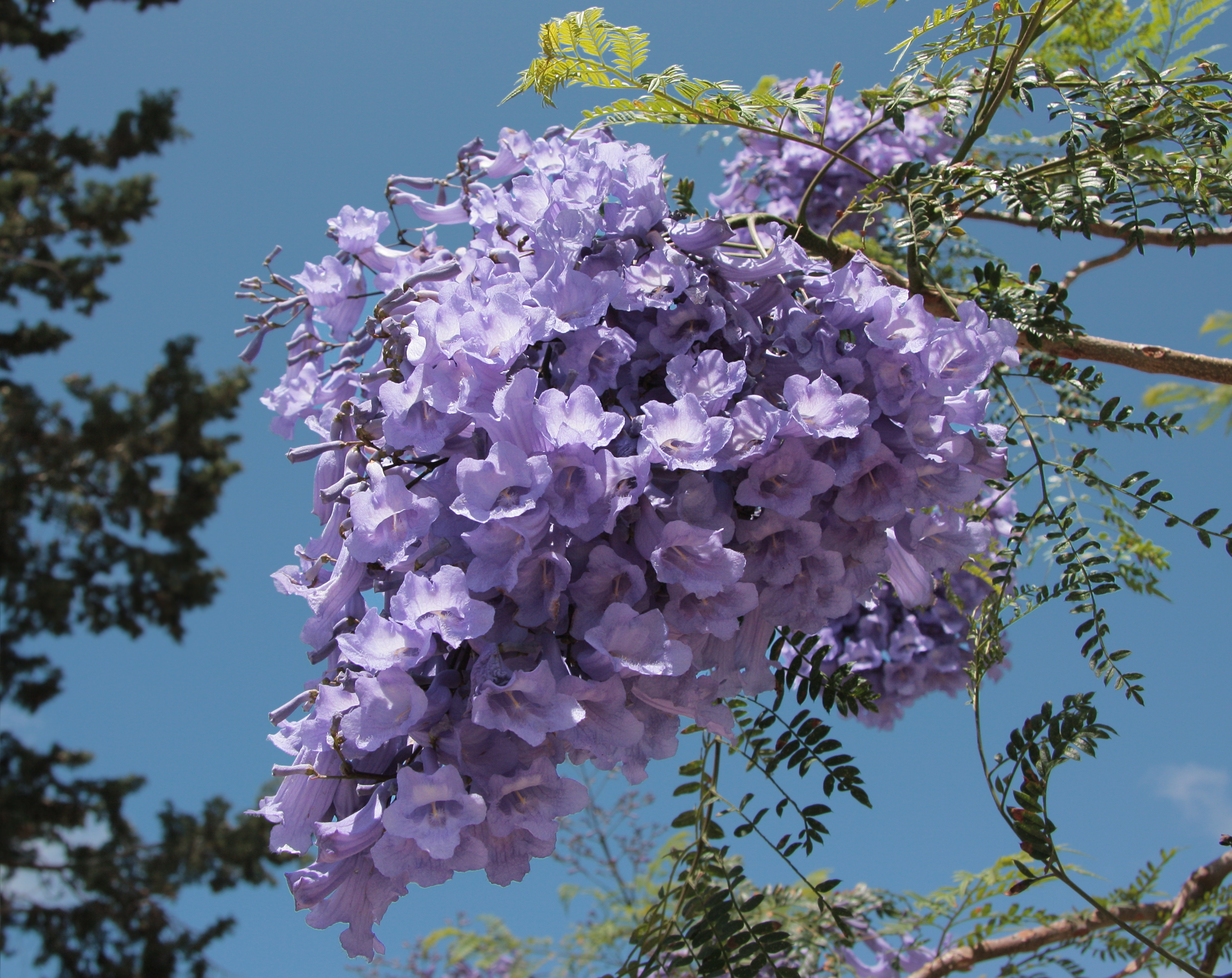 trees are in bloom in Cyprus